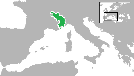 Locator map showing the Duchy of Savoy in the year 1600. (Partially based on Euratlas map of Europe - 1600.)